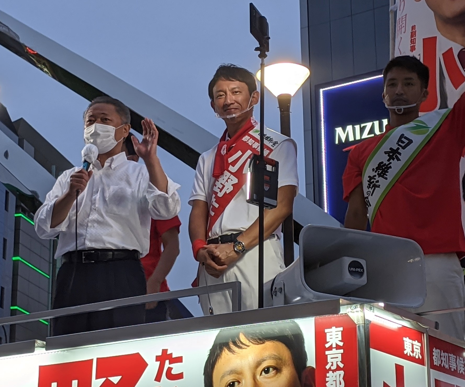 Ono Taisuke (candidate of Tokyo gubernatorial election), Baba Nobuyuki, and Matsuda Ryusuke(June 18, 2020, Ota City, Tokyo)